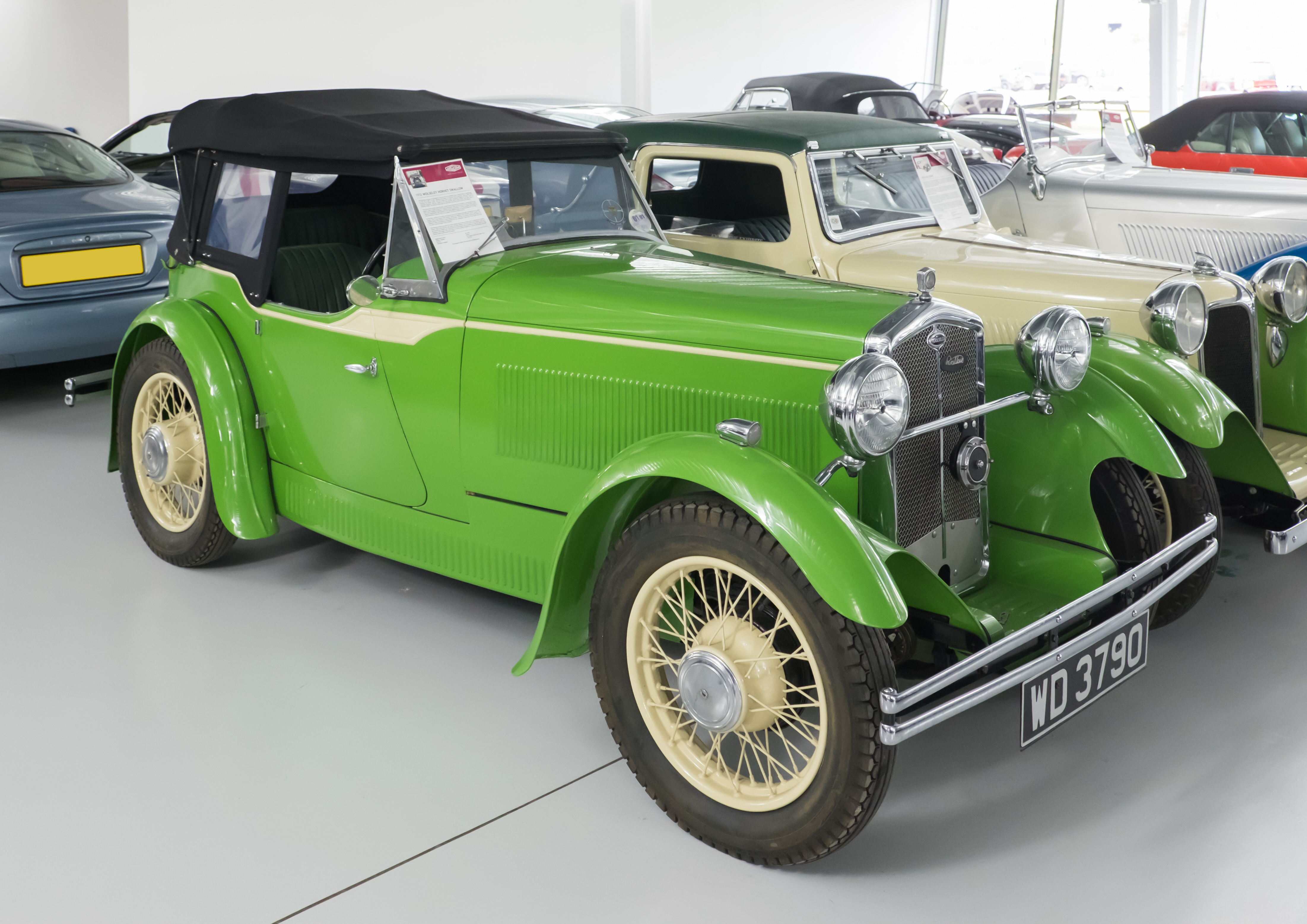 A 1932 Wolseley Hornet Swallow. This car has a body by the Swallow Coachbuilding Company built onto the chassis of a Wolseley Hornet. This example is kept in the Jaguar Heritage Collection at the British Motor Museum.